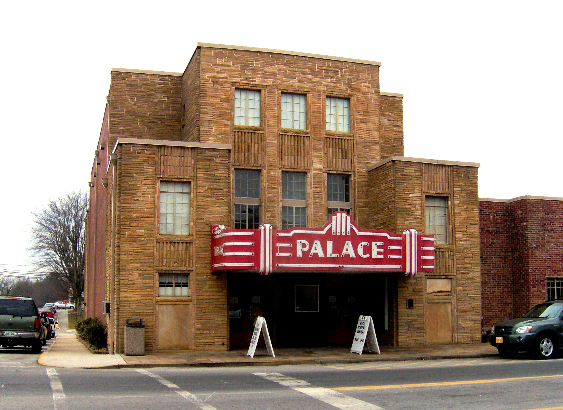 The NRHP-listed Palace Theater in Crossville, Tennessee, USA.